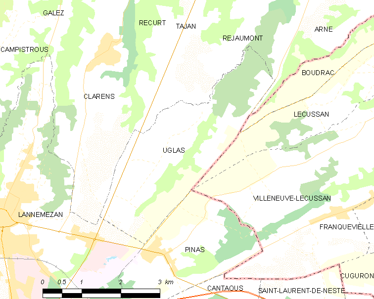 Map of French municipality